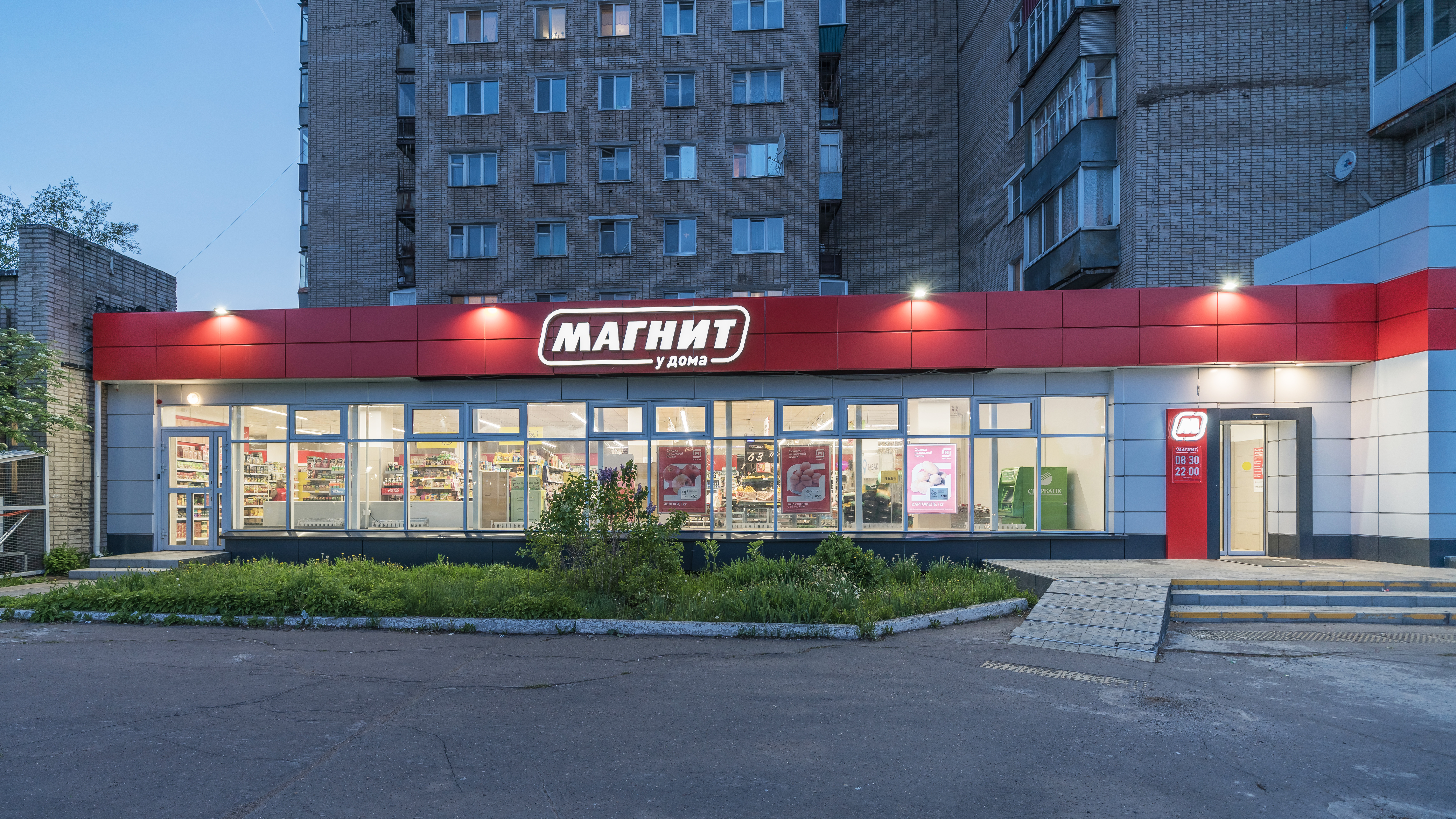 Magnit shop in Glazov, Udmurtia, Russia